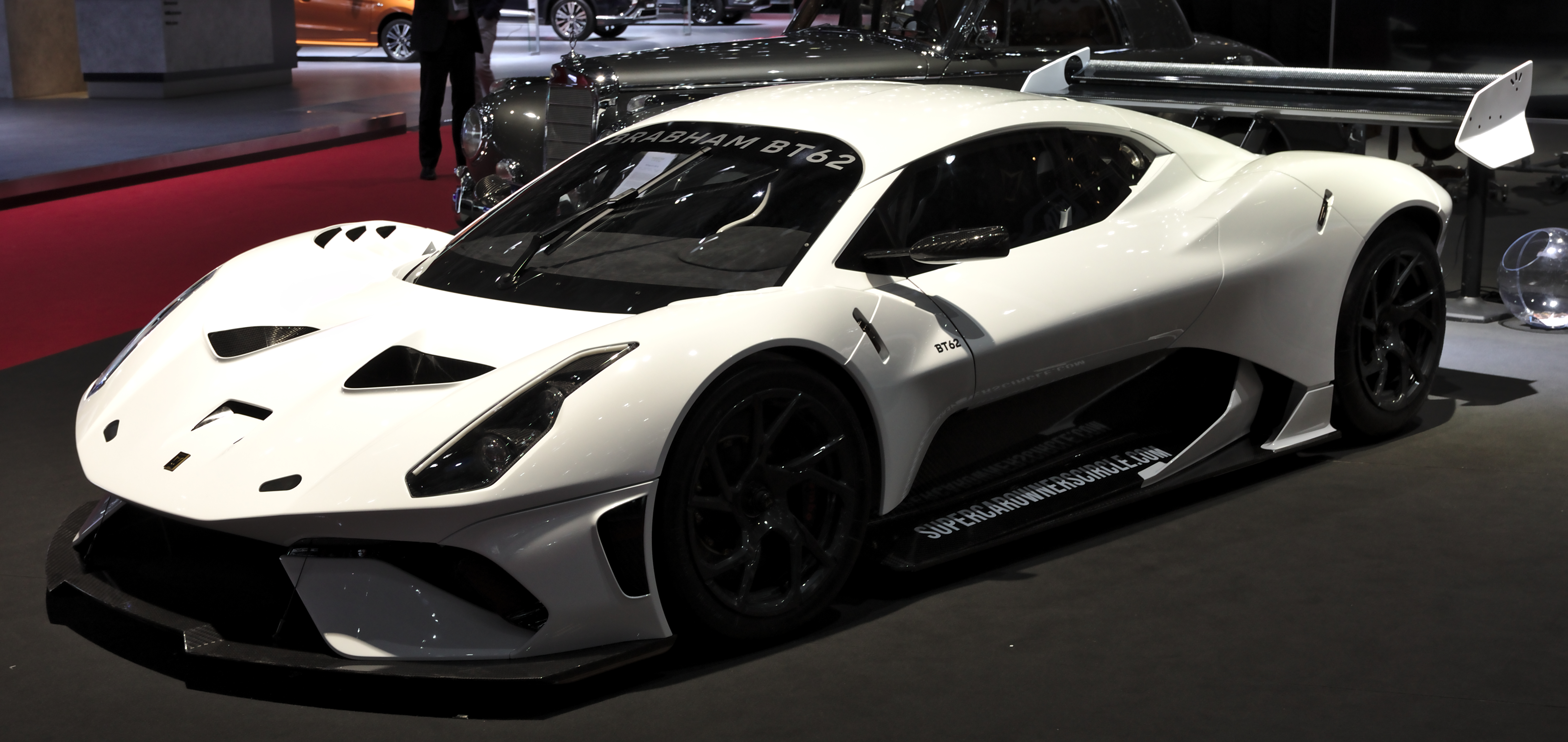 Brabham BT62 at Geneva Motor Show 2019